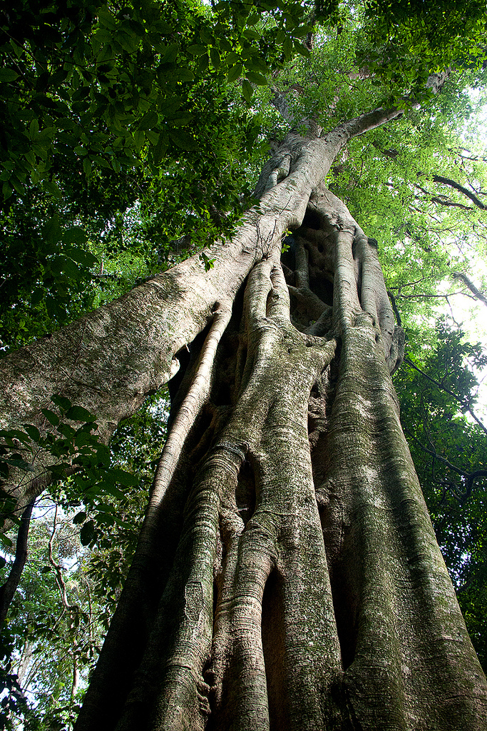 Trunk of a Chirinda fig in Chirinda Forest, near Mount Selinda, eastern Zimbabwe